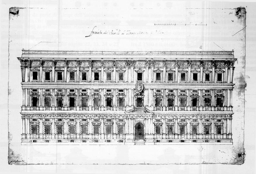 Galeazzo Alessi, 1557 original project (slightly changed in the actual building) of Palazzo Marino in Milan, Italy. This is the original facade (the one along Piazza san Fedele square).